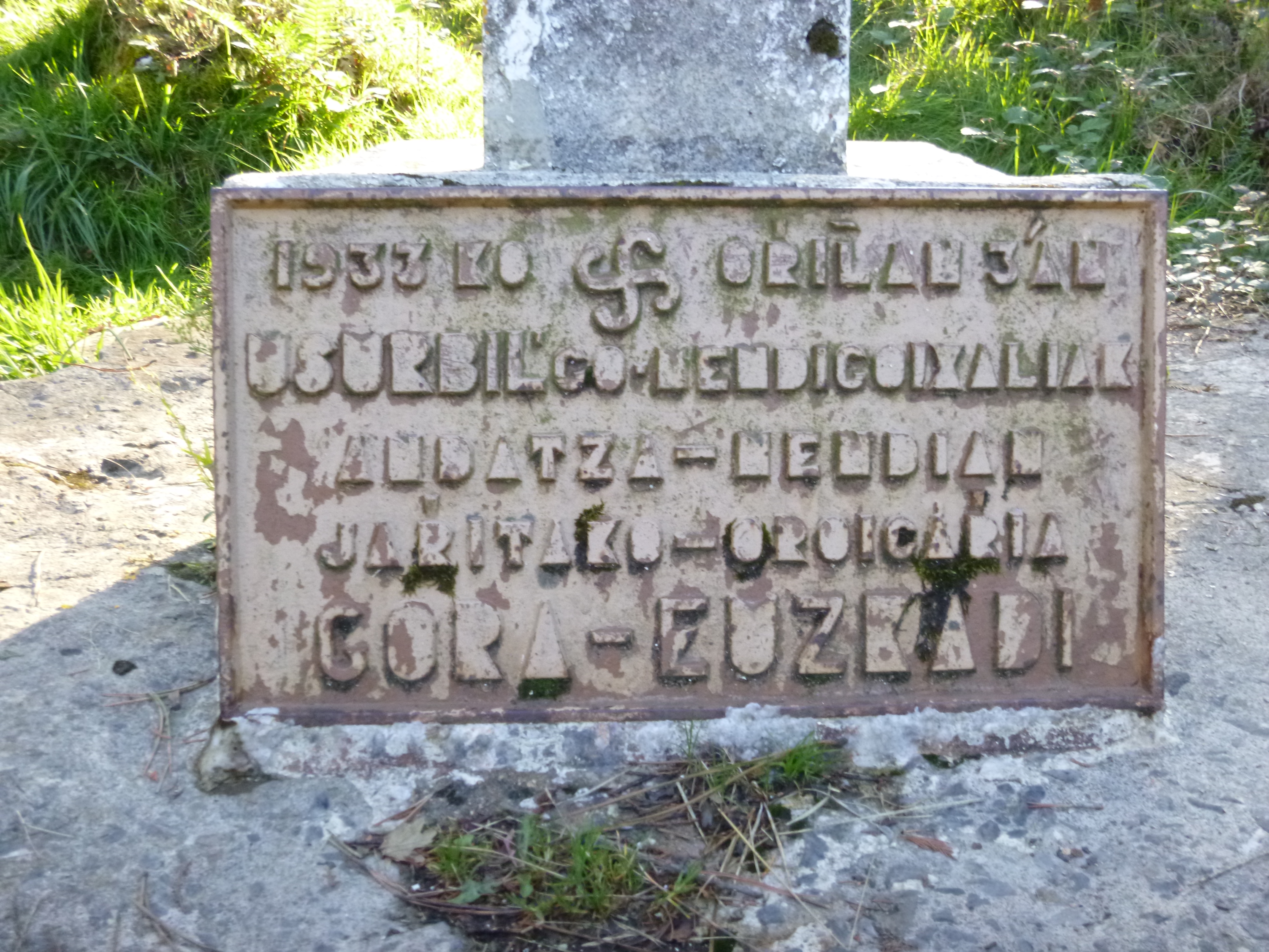 Juanasoro cross